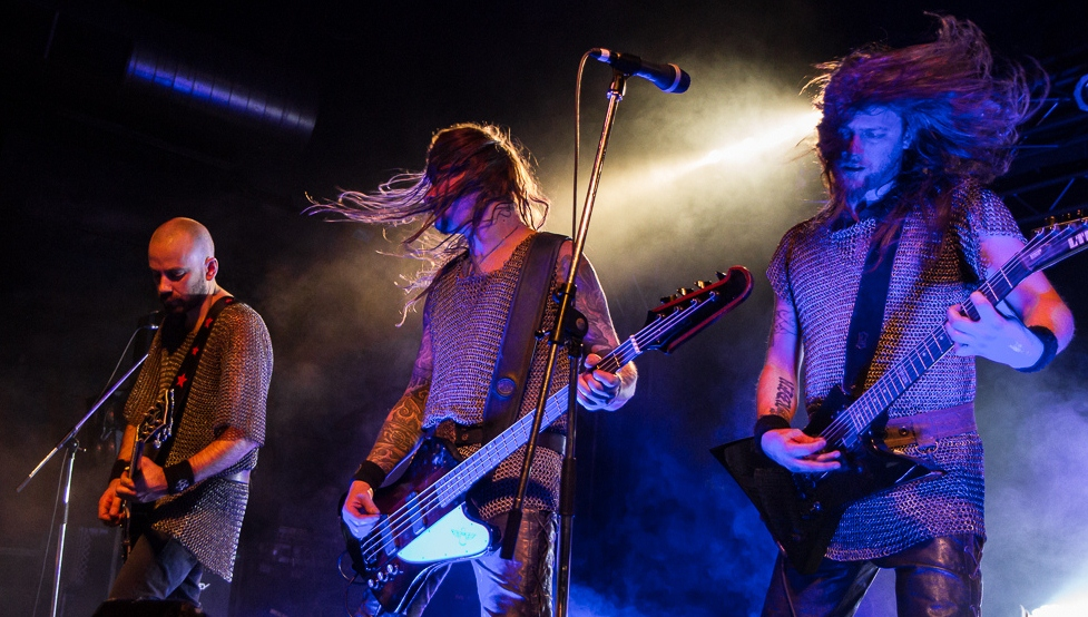 Helheim performing live at Niflheim 2013.